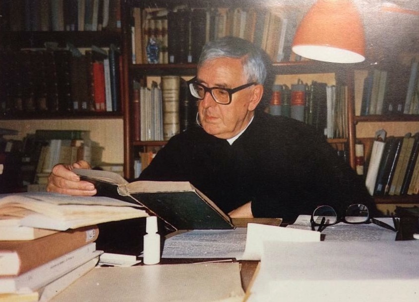 Father Antonio Orbe working in his study.